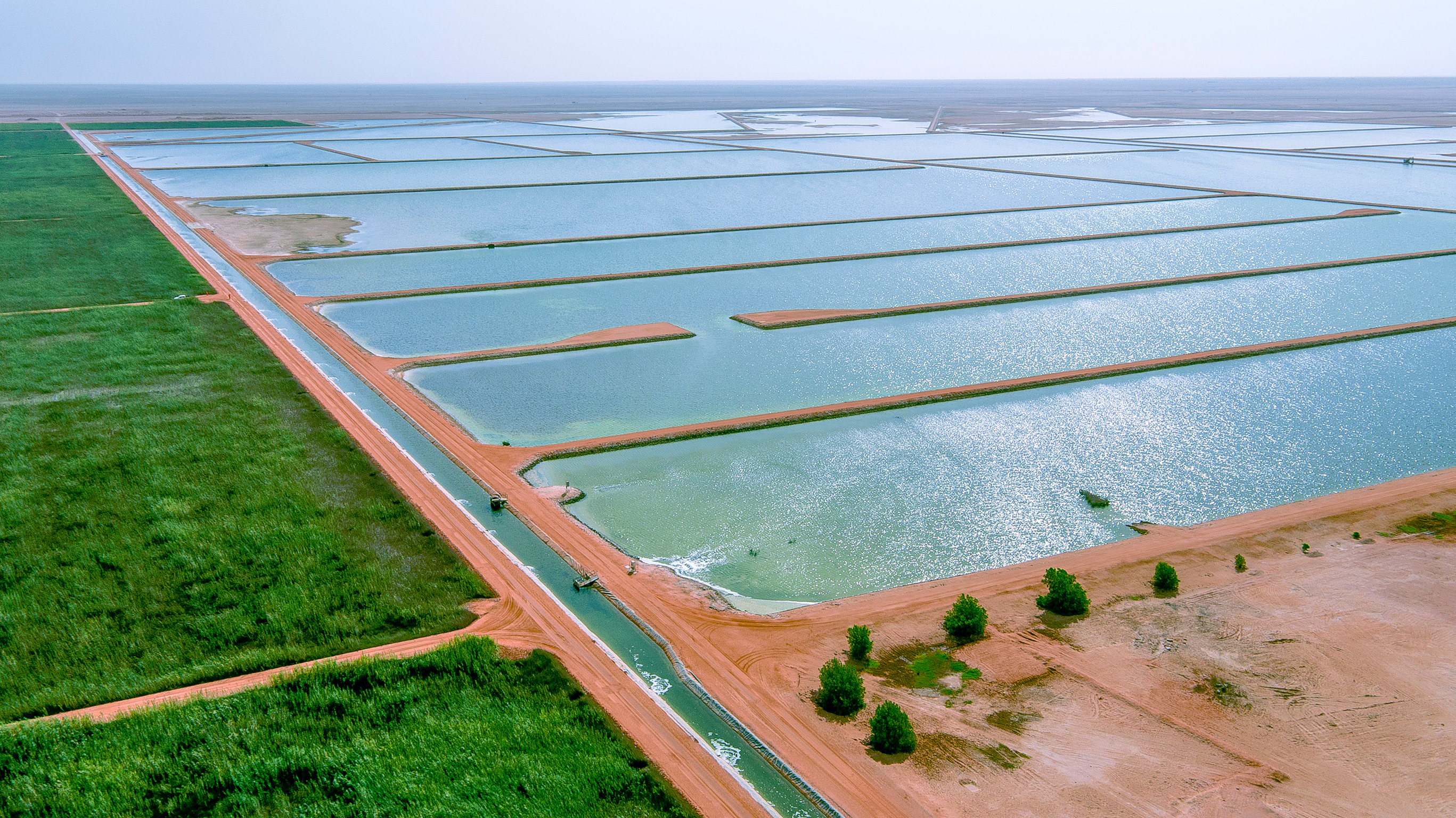 In the middle of the Omani desert landscape, BAUER Nimr LLC operates the largest commercial constructed wetland plant for produced water treatment.